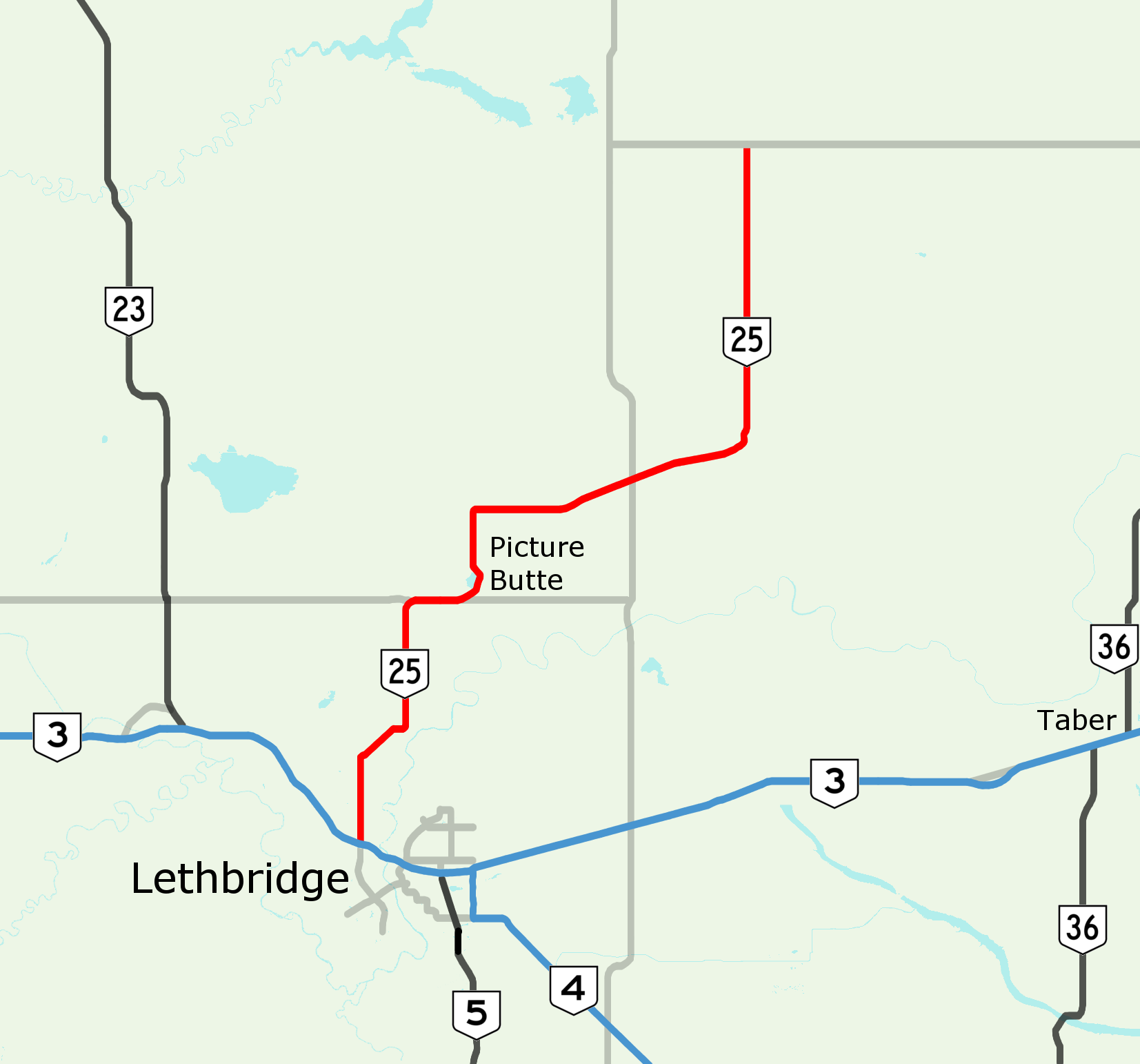 OpenStreetMap of Highway 25 in southern Alberta.